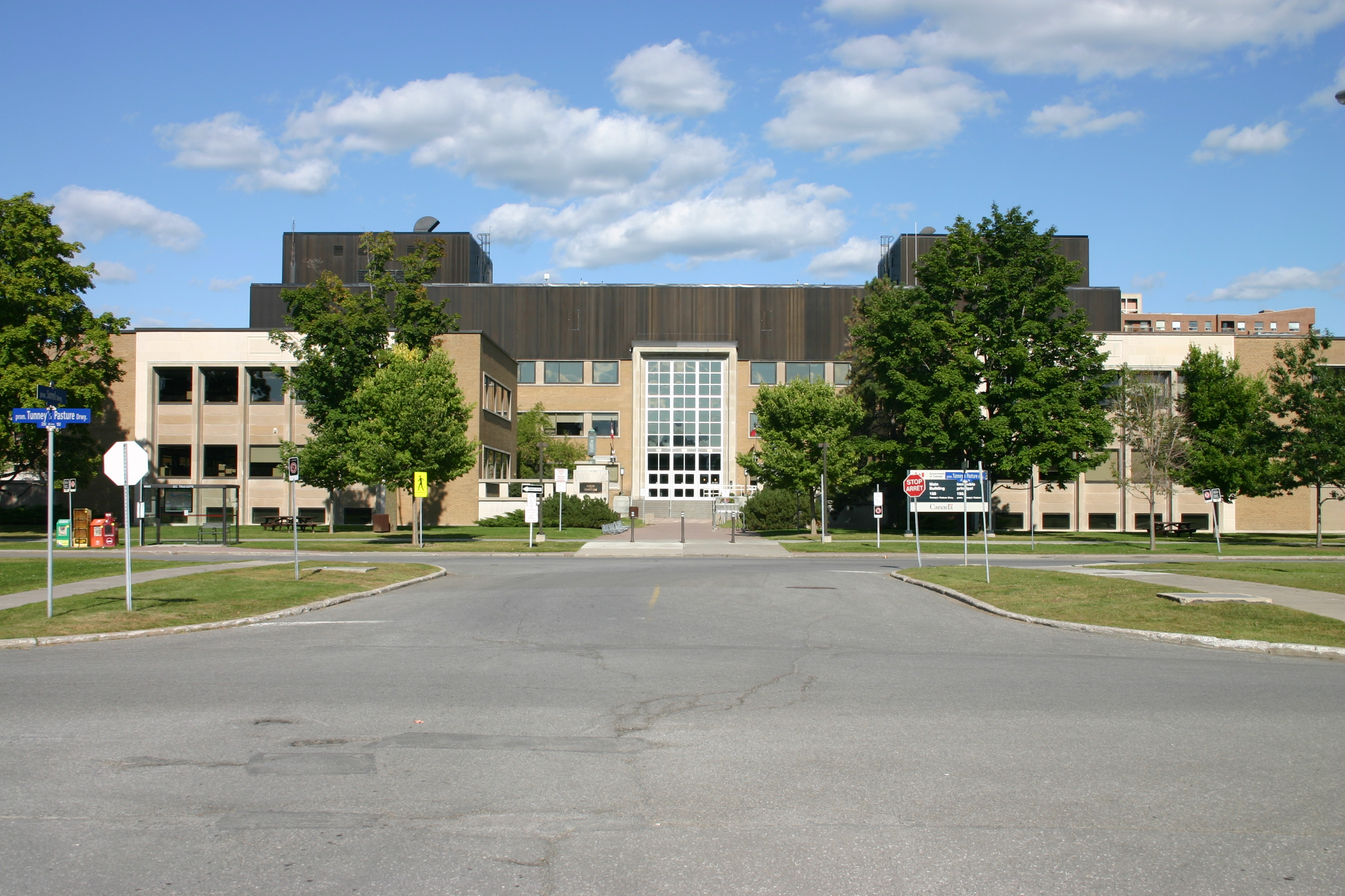 Taken by Demetri1968 on August 31, 2008